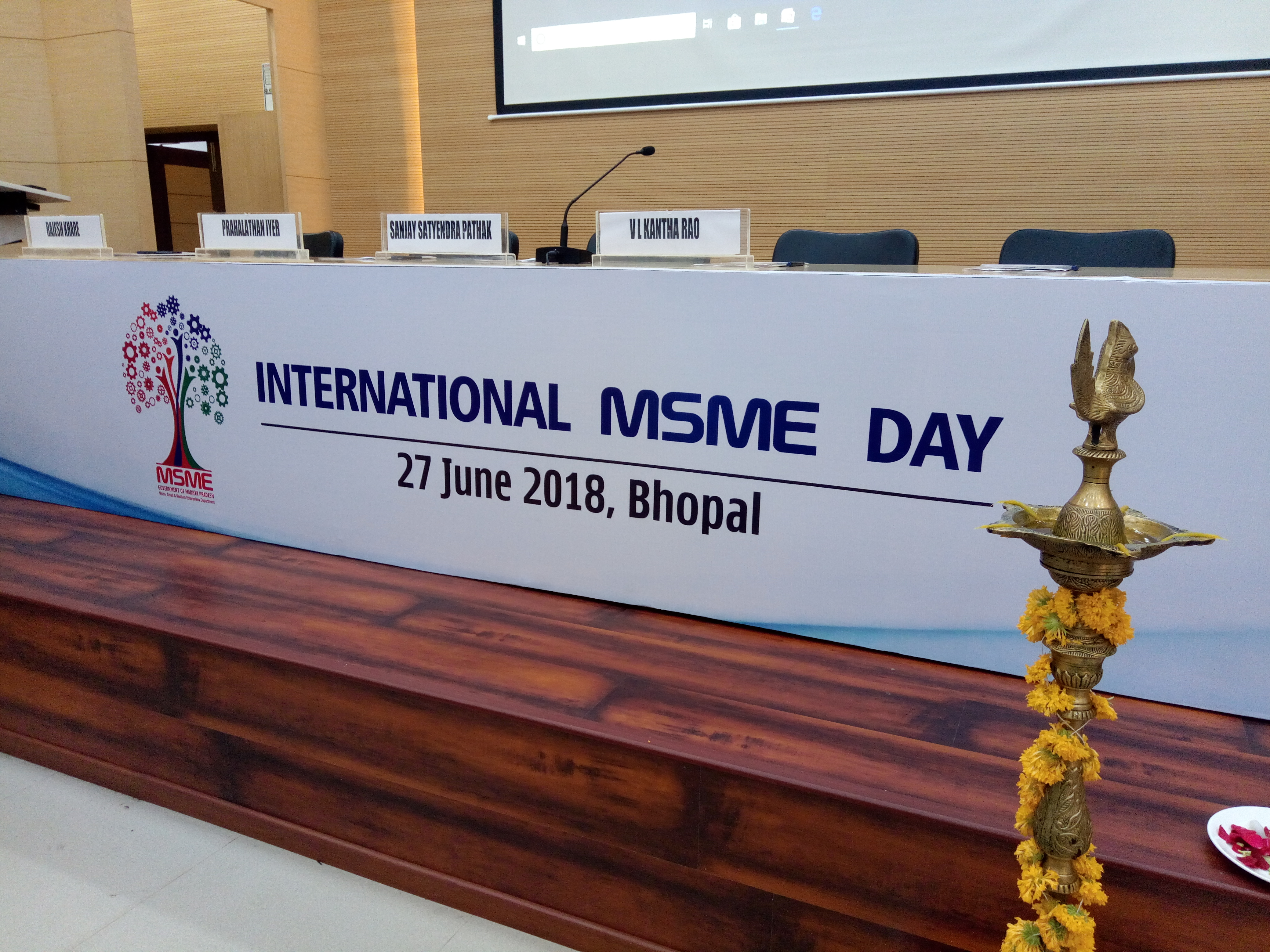 International MSME day